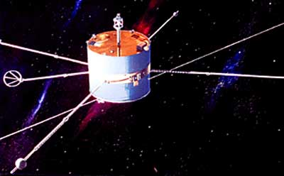 SCATHA (Spacecraft Charging at High Altitude) satellite, also known as P78-2